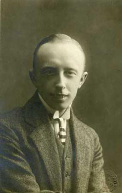 Konstantin Michailovich Miklashevsky, Russian actor and theatre director, theatre historian.